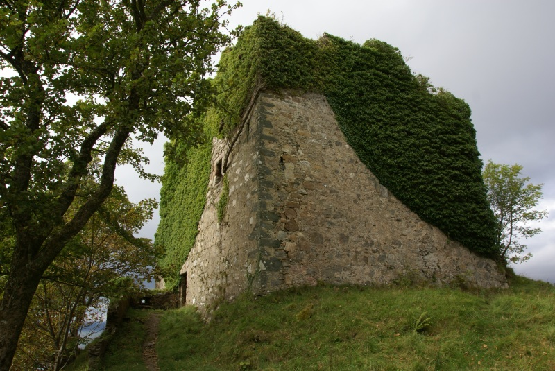 Old Castle Lachlan, Garbhallt, Argyll and Bute, Scotland.